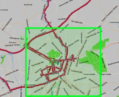 Theft protection by programming electronic fences (= Geo Fences) within an appropriate fleet management system